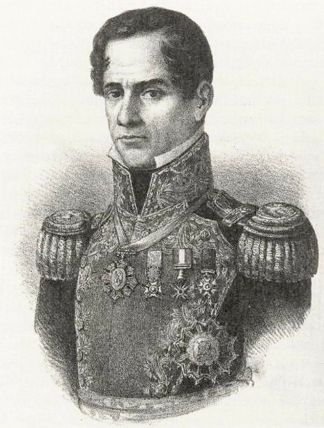 This is a lithograph of Mexican President Antonio Lopez de Santa Anna. The image is now located at the Benson Latin American Collection at the University of Texas at Austin. This image was reprinted in Craig H. Roell's 1994 book Remember Goliad!, published by the Texas State Historical Association. According to Roell, the image came from the 1852 book Historia de Mejico by Don Lucas Alaman.